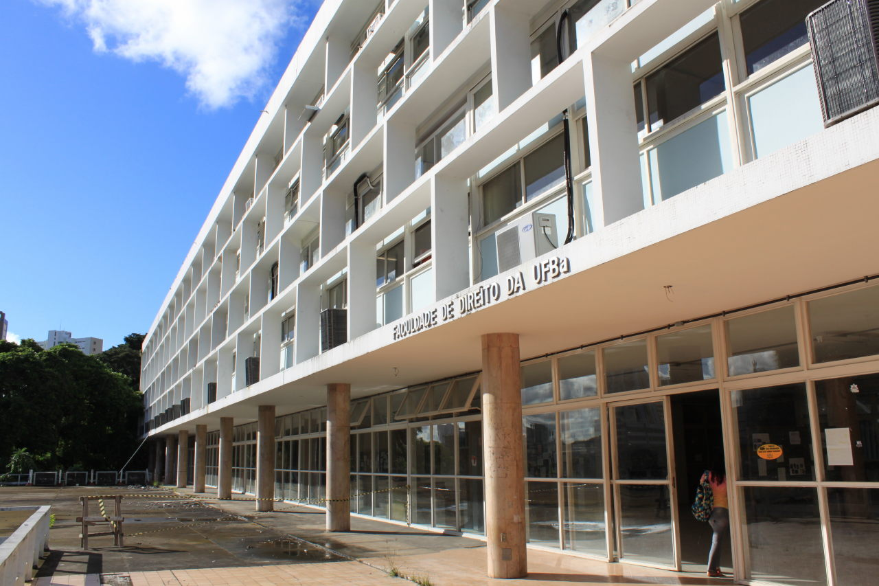 Facade of the Law School of the Federal University of Bahia, Canela Campus, Salvador, Bahia, Brazil.